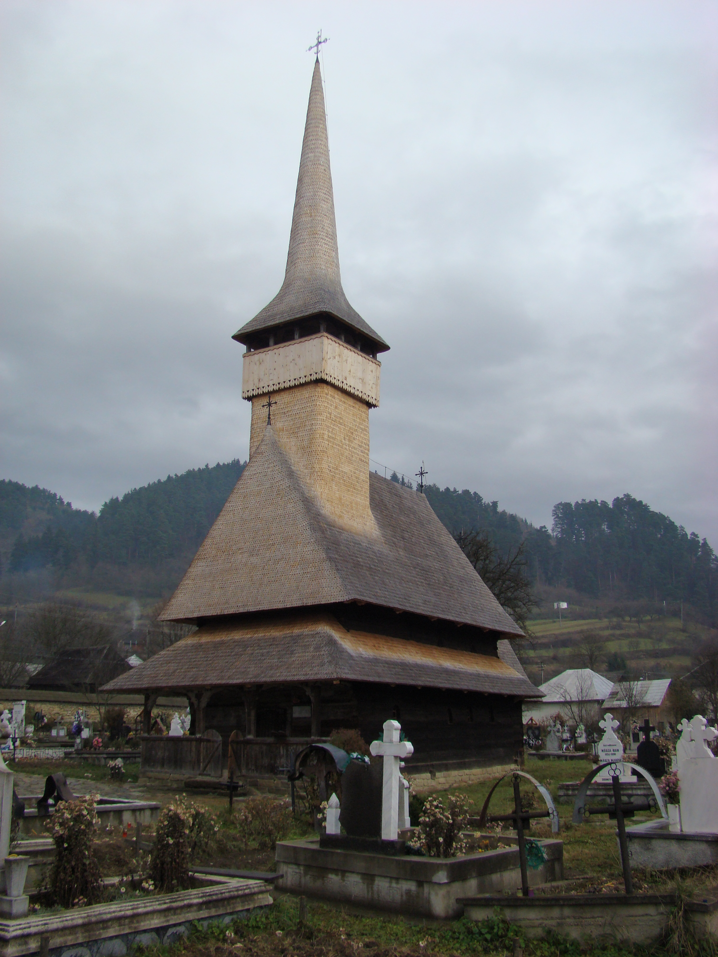 wooden church in Rozavlea, Maramureș county, Romania